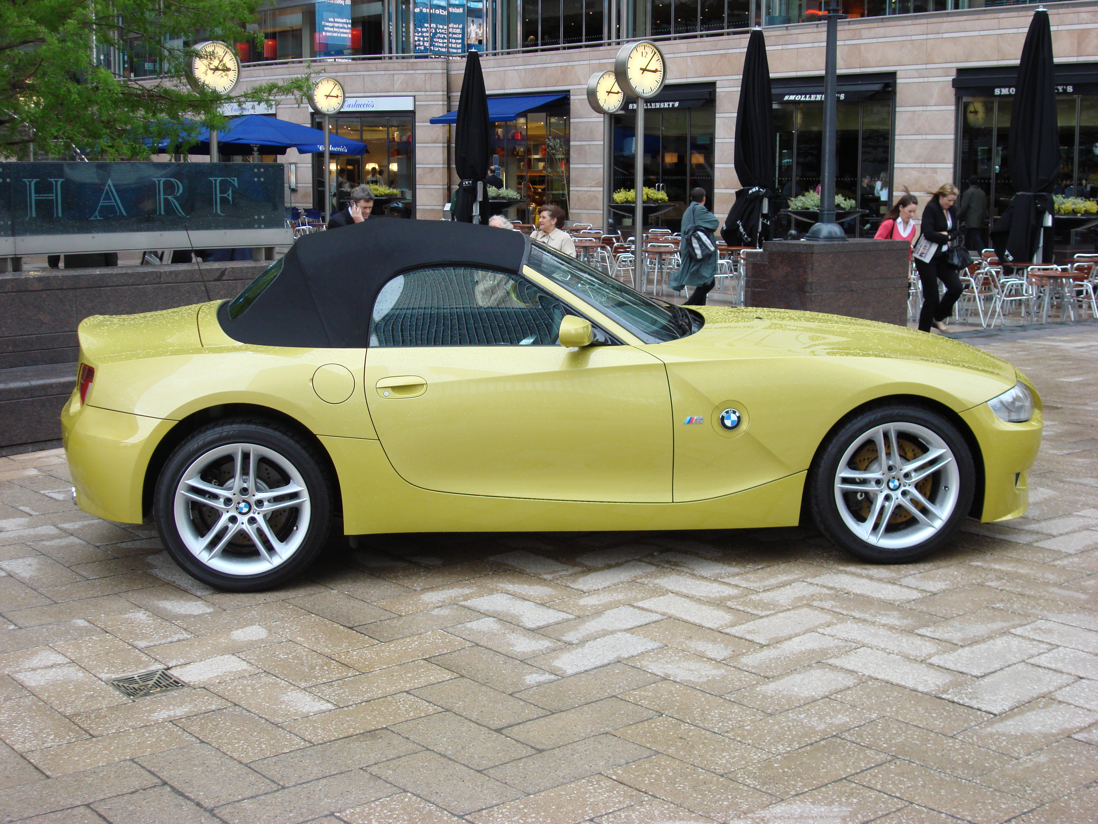 BMW Z4 M Roadster at Canary Wharf London